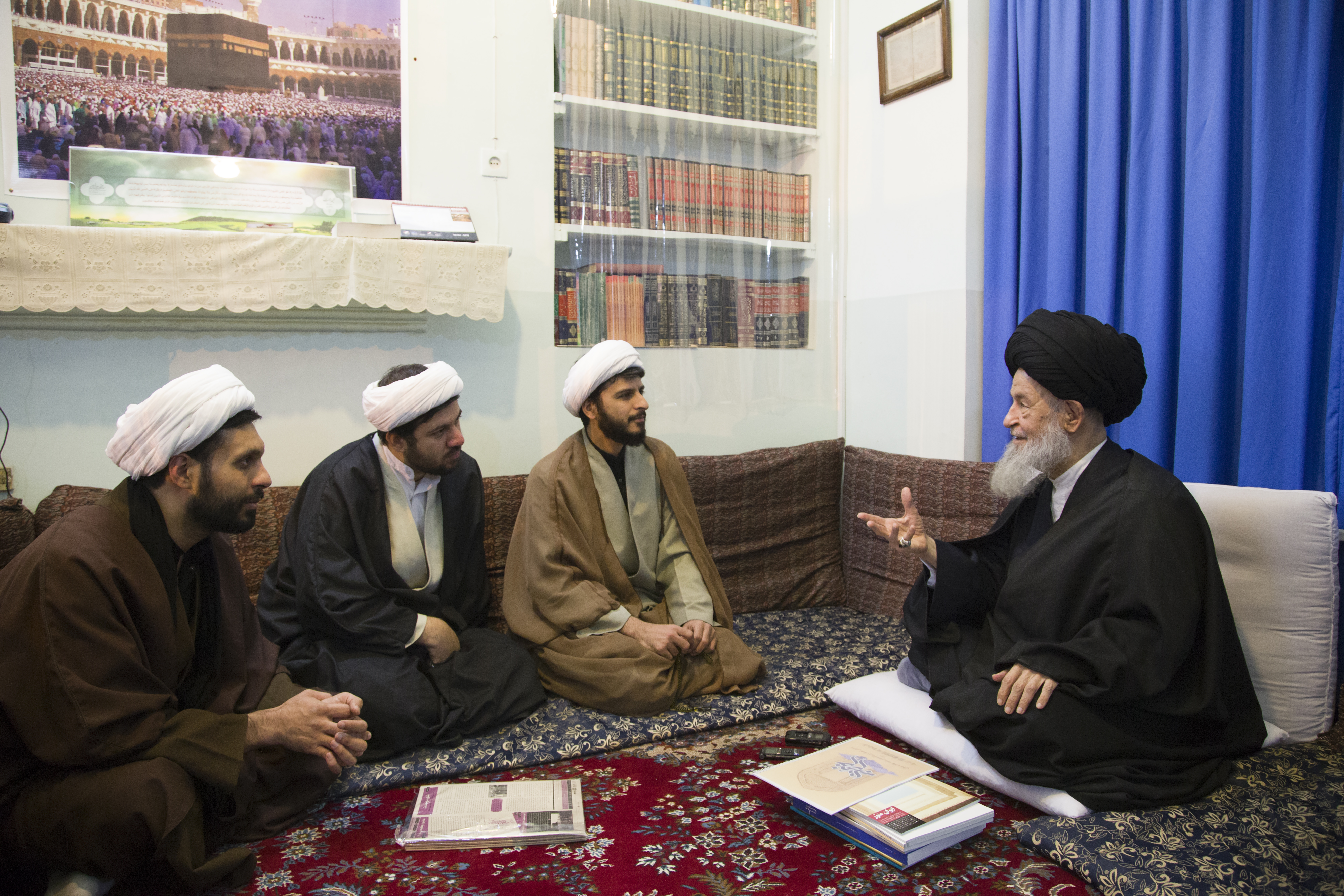 Grand Ayatollah Seyed Mohammad Ali Hosseini Alavi Gorgani (born 1922) is an Iranian Twelver shi'a marja. He was born in a religious family in Golestan, Iran. He rose to a leading scholar in Najaf, and moved to Qom in 1979. Ayatollah Alavi Gorgani studied under the late Ayatollah Bourujerdi.